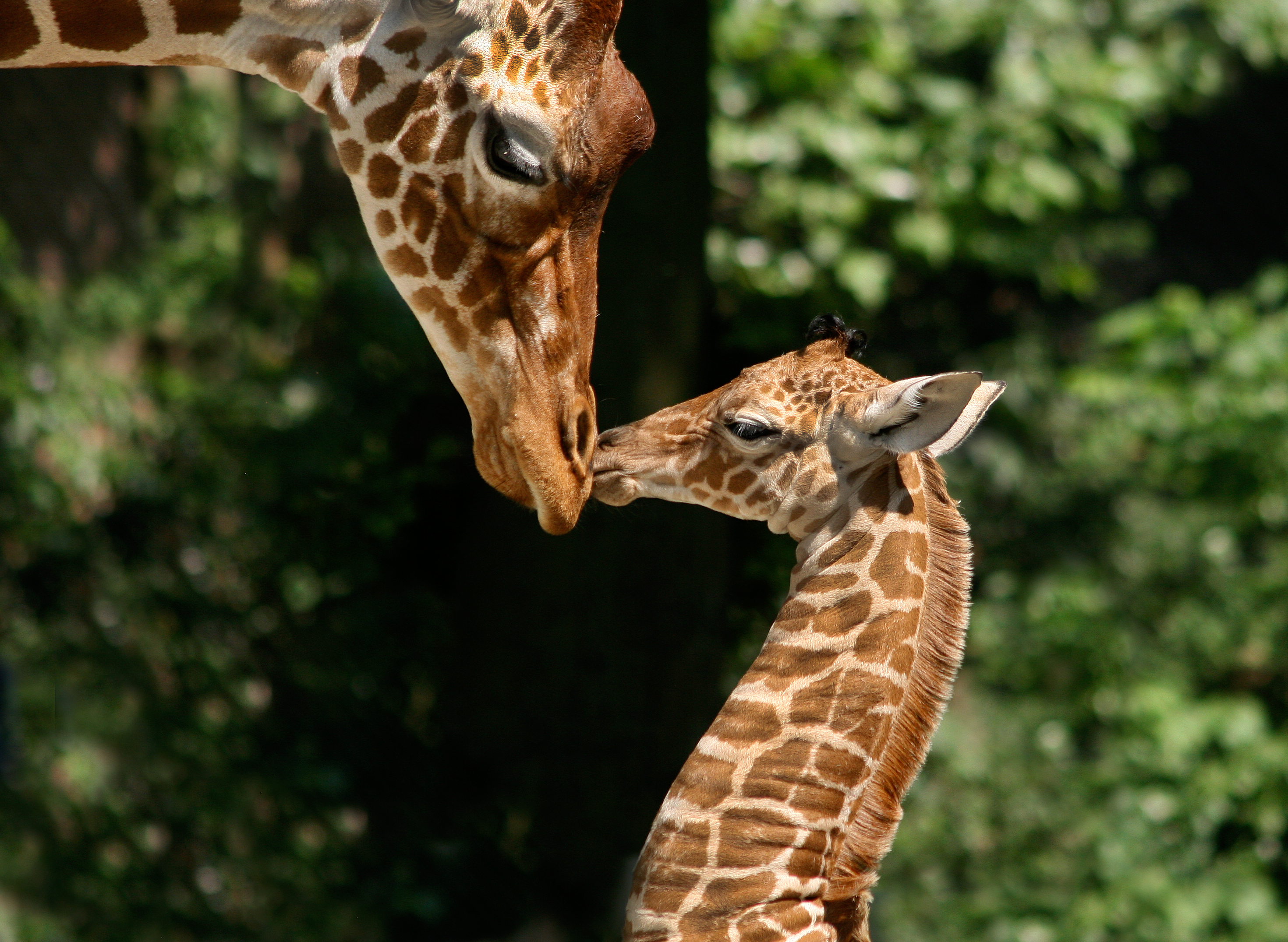 Picture of the giraffes in Artis